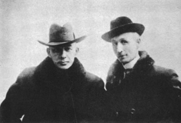 Sergei Rachmaninoff (1873—1943) and his friend Nikolai Struve (1875—1920)